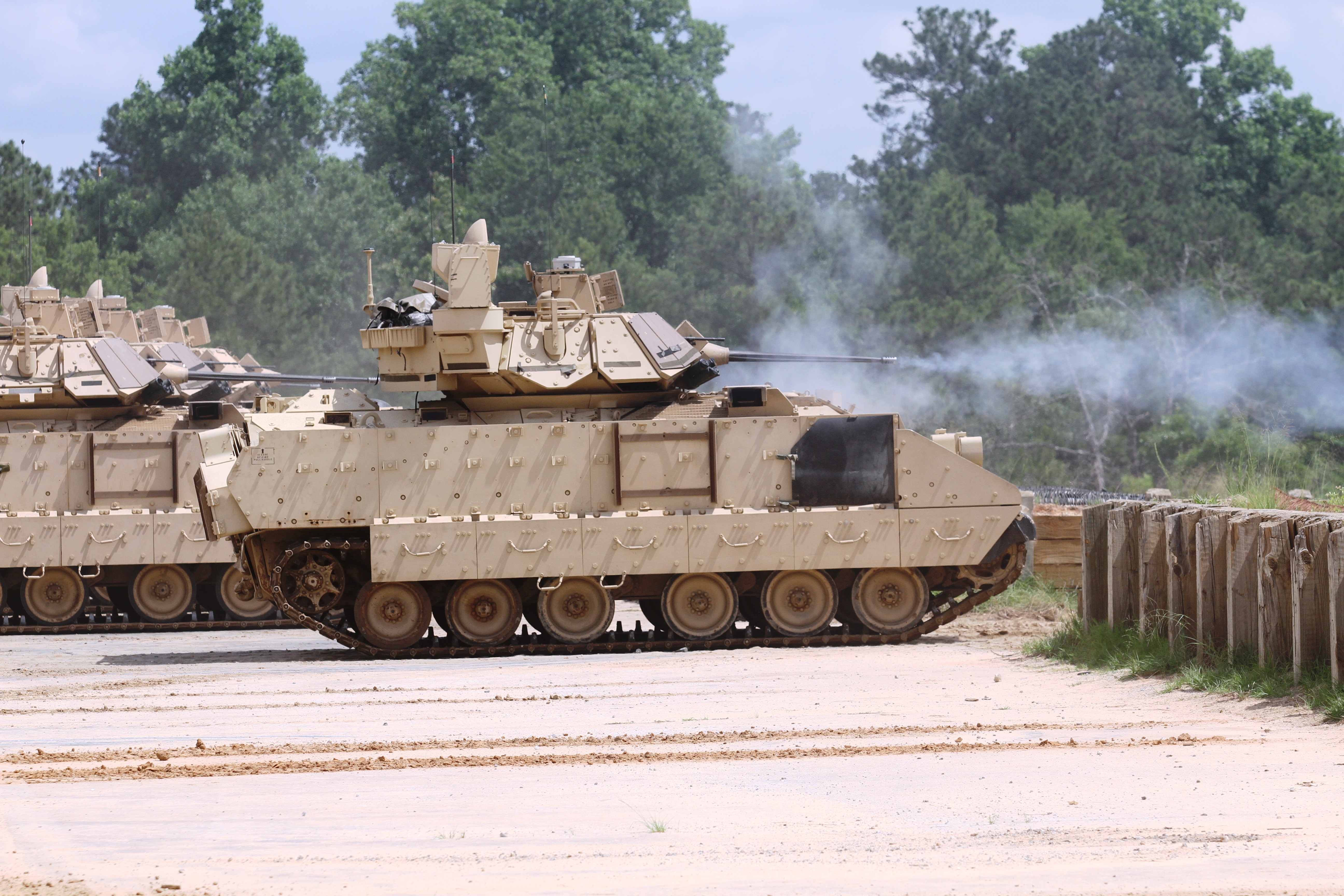 Headquarters 33, the M2 Bradley Fighting Vehicle commanded by Maj. William Harrington and gunned by Sgt. Andrew Graham of 1st Battalion, 15th Infantry Regiment, 3rd Armored Brigade Combat Team, 3rd Infantry Division, fires its first round of the day from its 25 mm Bushmaster main gun at Carmouche Range on Fort Benning, Ga., during gunnery training June 4. Gunnery is the culmination of months of training and preparation by the crews of each vehicle. (U.S. Army photo by 1st. Lt. Joseph Brown, 1st Battalion, 15th Infantry Regiment) Unit: 3rd Brigade Combat Team, 3rd Infantry Division